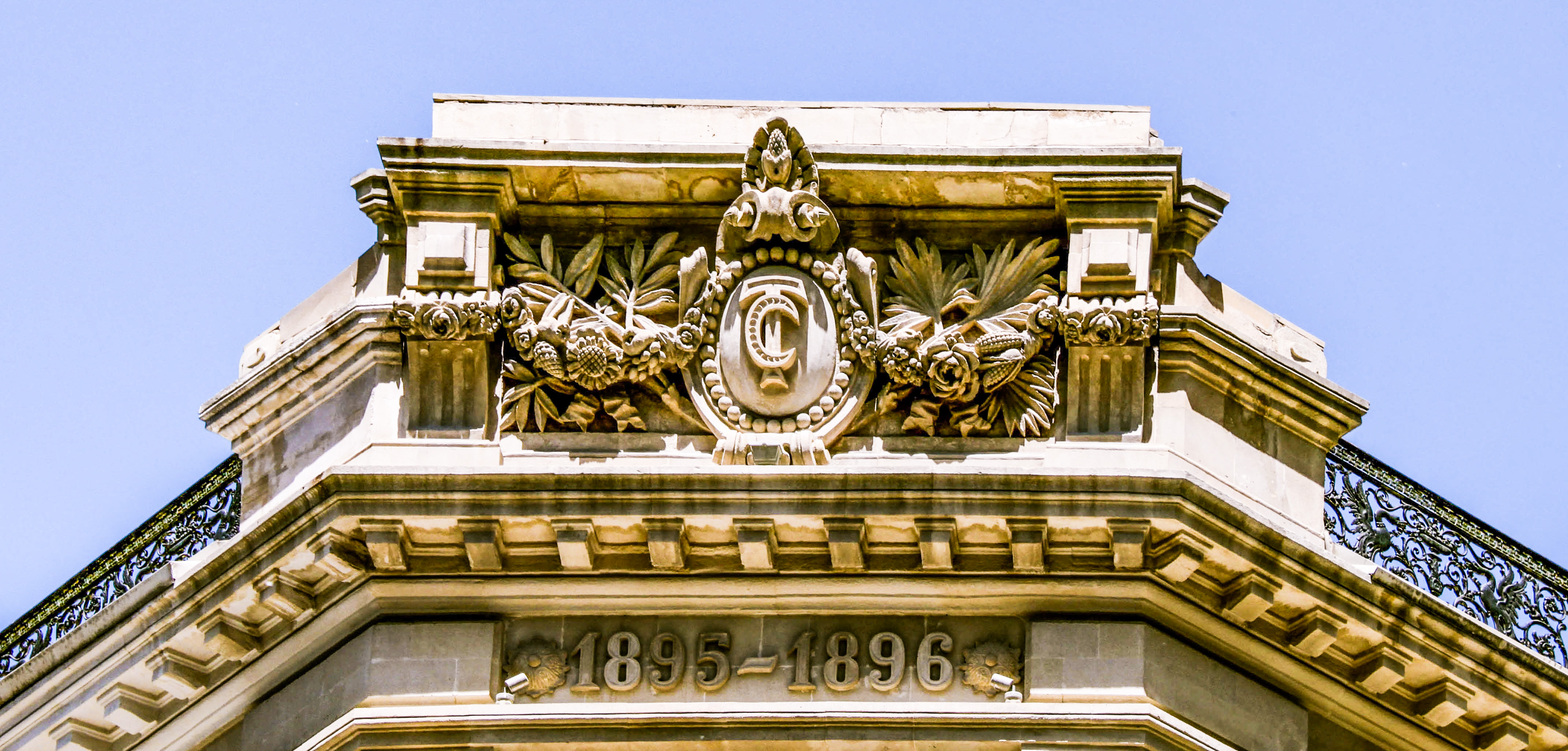 Architectural detail in Baku